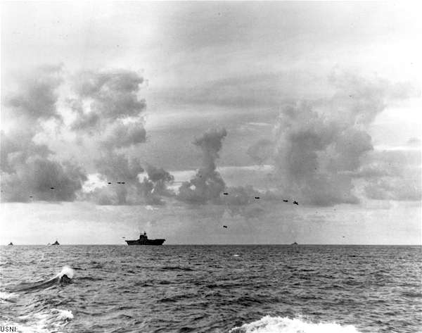 U.S. Navy aircraft of Carrier Air Group 10 (CVG-10), many critically low on fuel, circle to land on the aircraft carrier USS Enterprise (CV-6) during a lull in the Battle of the Santa Cruz Islands on 26 October 1942.